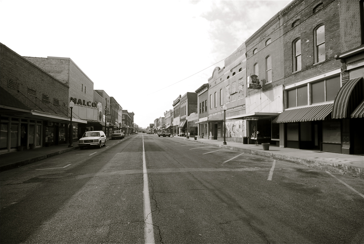 Mostly abandoned downtown Helena, which used to be one of the most prosperous towns in the state.